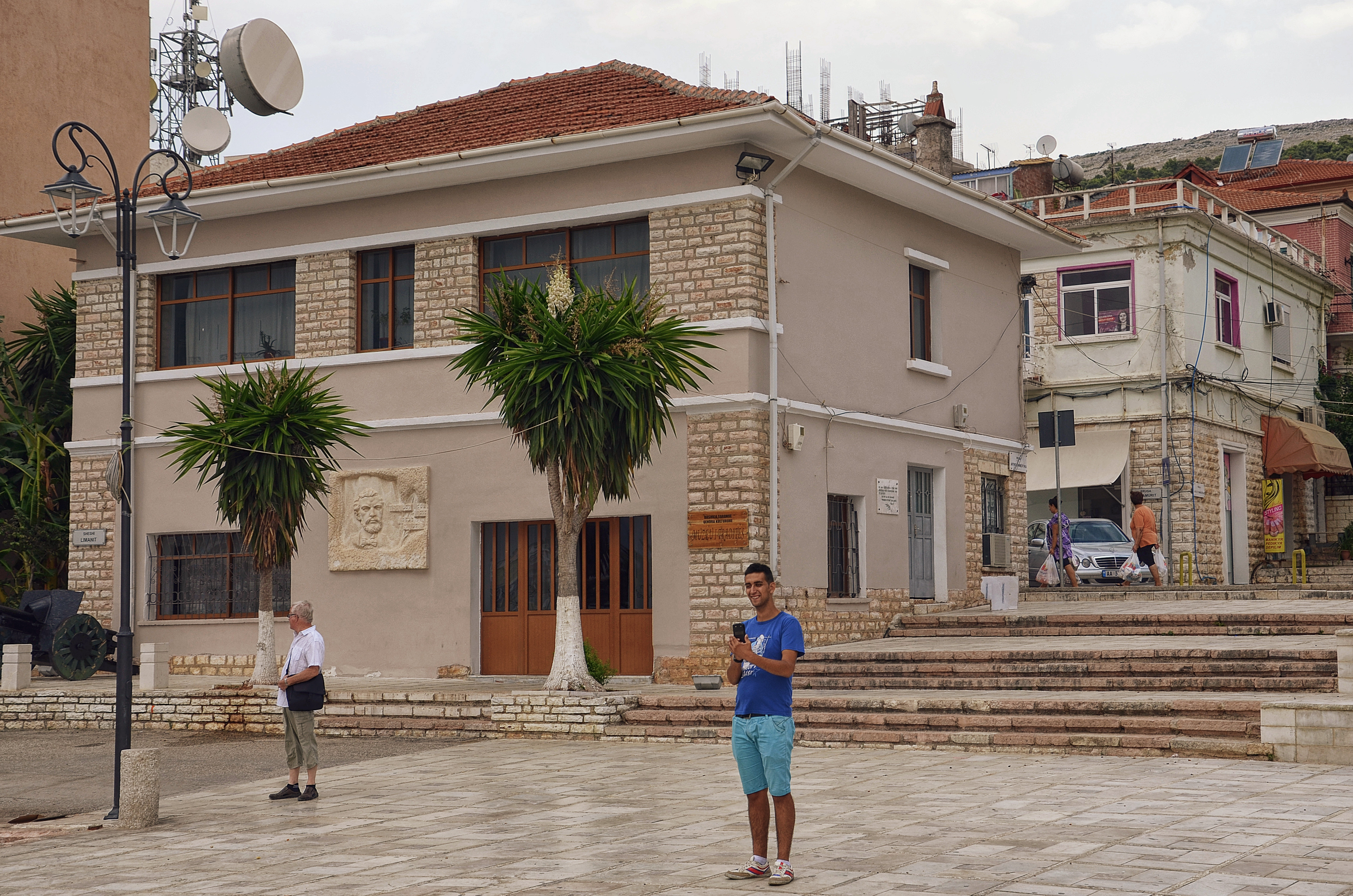 The Museum of Traditions (Muzeu i Traditës) in Sarandë, Albania with a Naim Frashëri memorial on the front facade